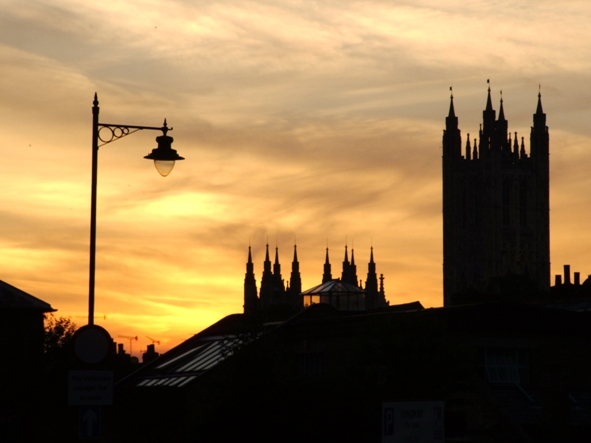 Canterbury Cathedral Sunset. Sunset over Canterbury Cathedral